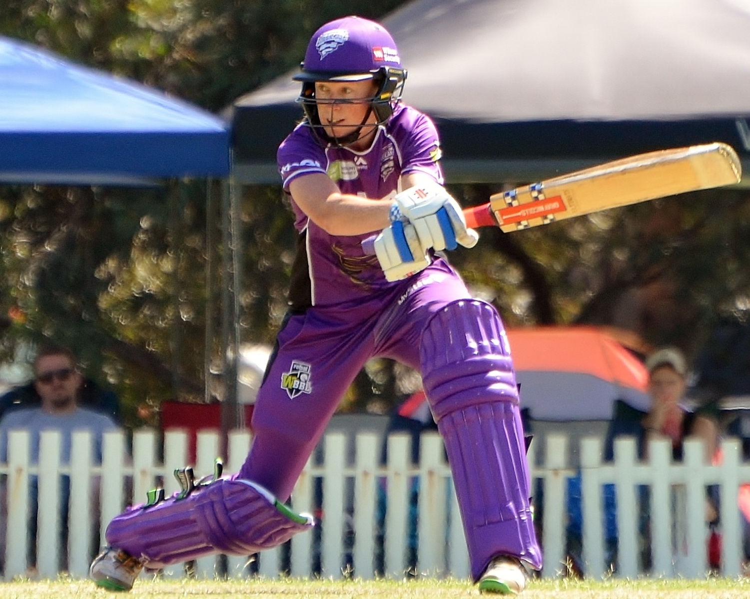 Hobart Hurricanes all-rounder Veronica Pyke batting against the Perth Scorchers, in a WBBL match at Lilac Hill Park in Perth